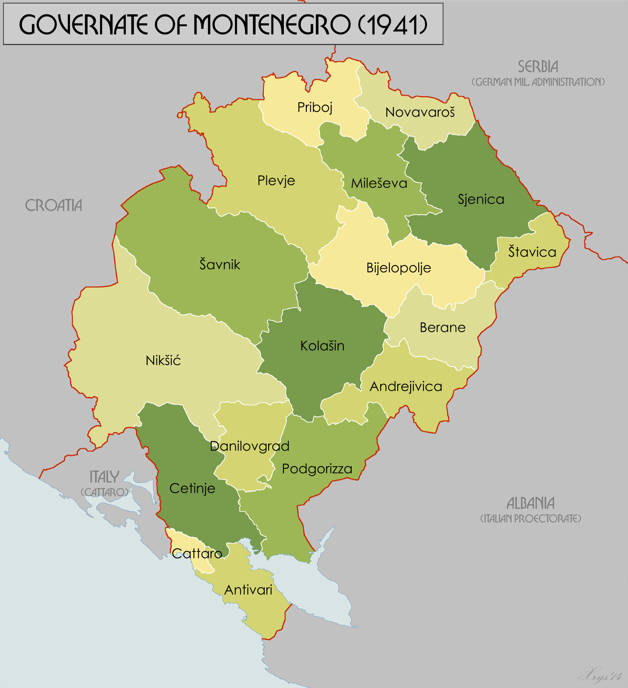 Administrative map of the Italian Governate of Montenegro (1941). Source data from Ubersichtskarte von Mitteleuropa 1:300k., Volksstumskarte Jugoslawien 1941.